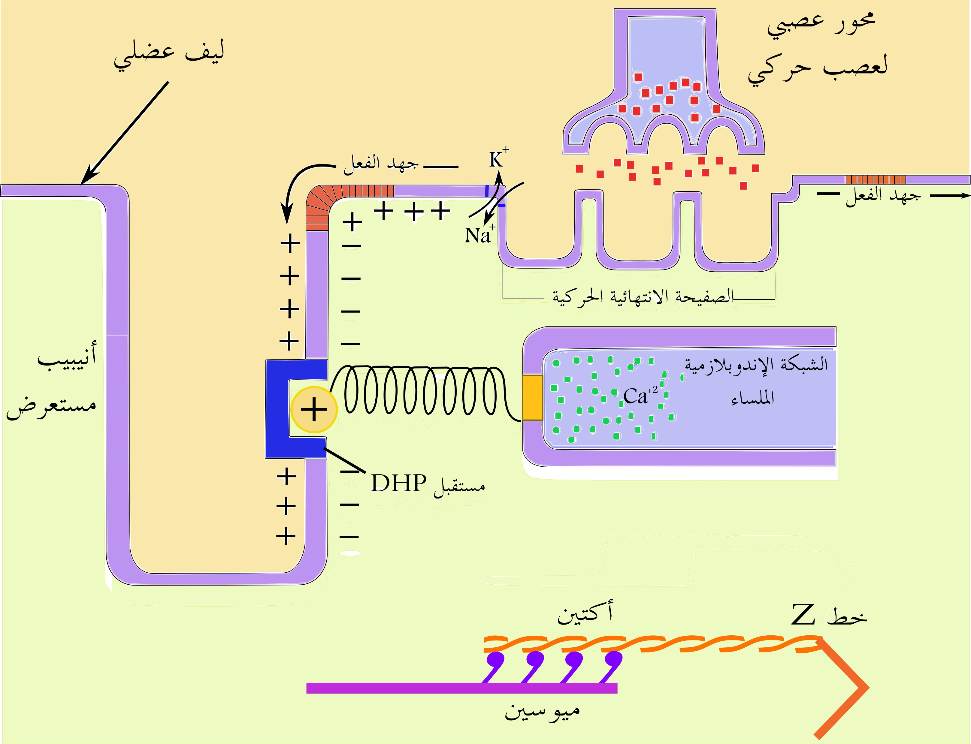 skeletal muscle innervation , explaining the relationship between muscle fiber and nerves , and the T-tubules and the sarcoplasmic reticulum